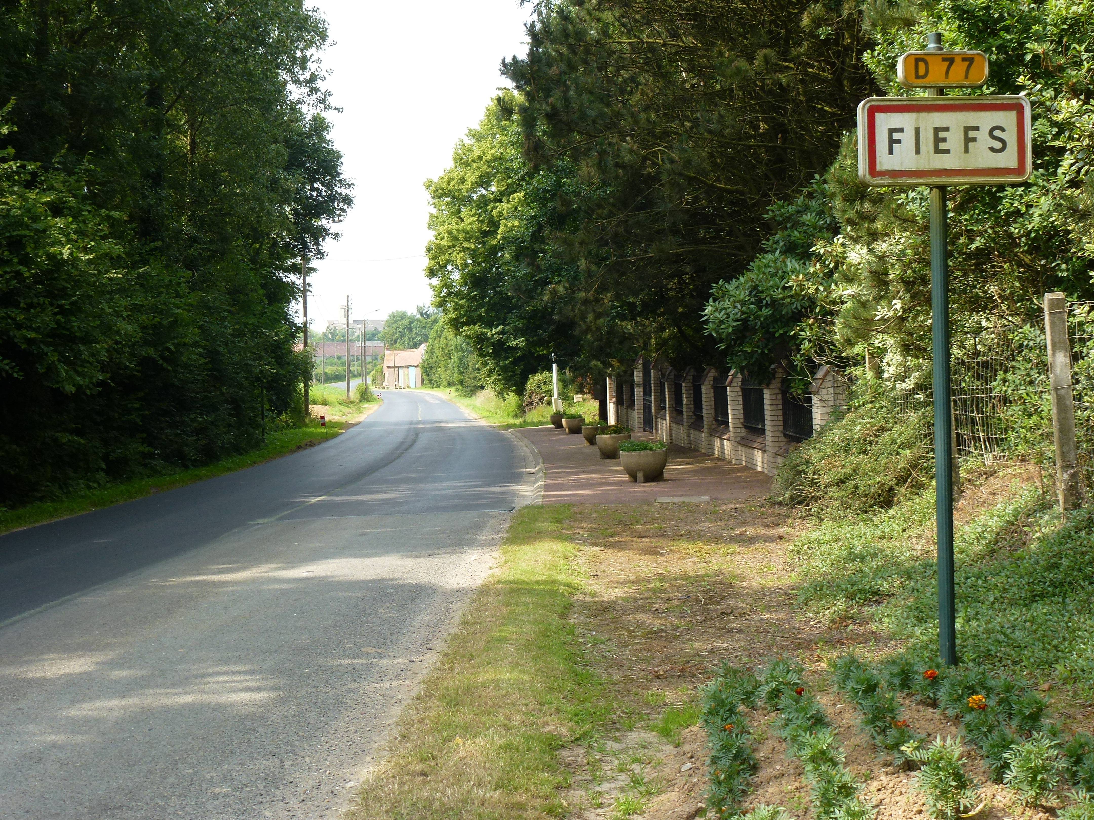 Fiefs (Pas-de-Calais) city limit sign